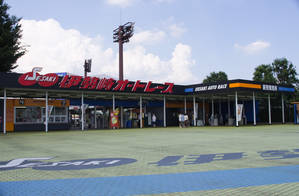 Isesaki AutoRace